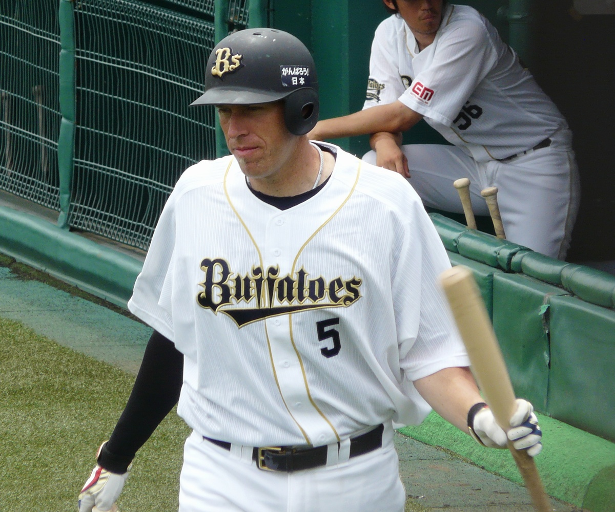 OB-Mike-Hessman20110615